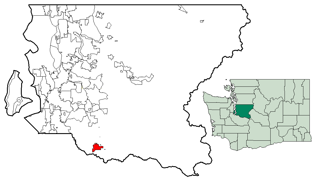 Map of Enumclaw within King County, with county highlighted on Washington map. Created by njjcp from United States Census Bureau maps.